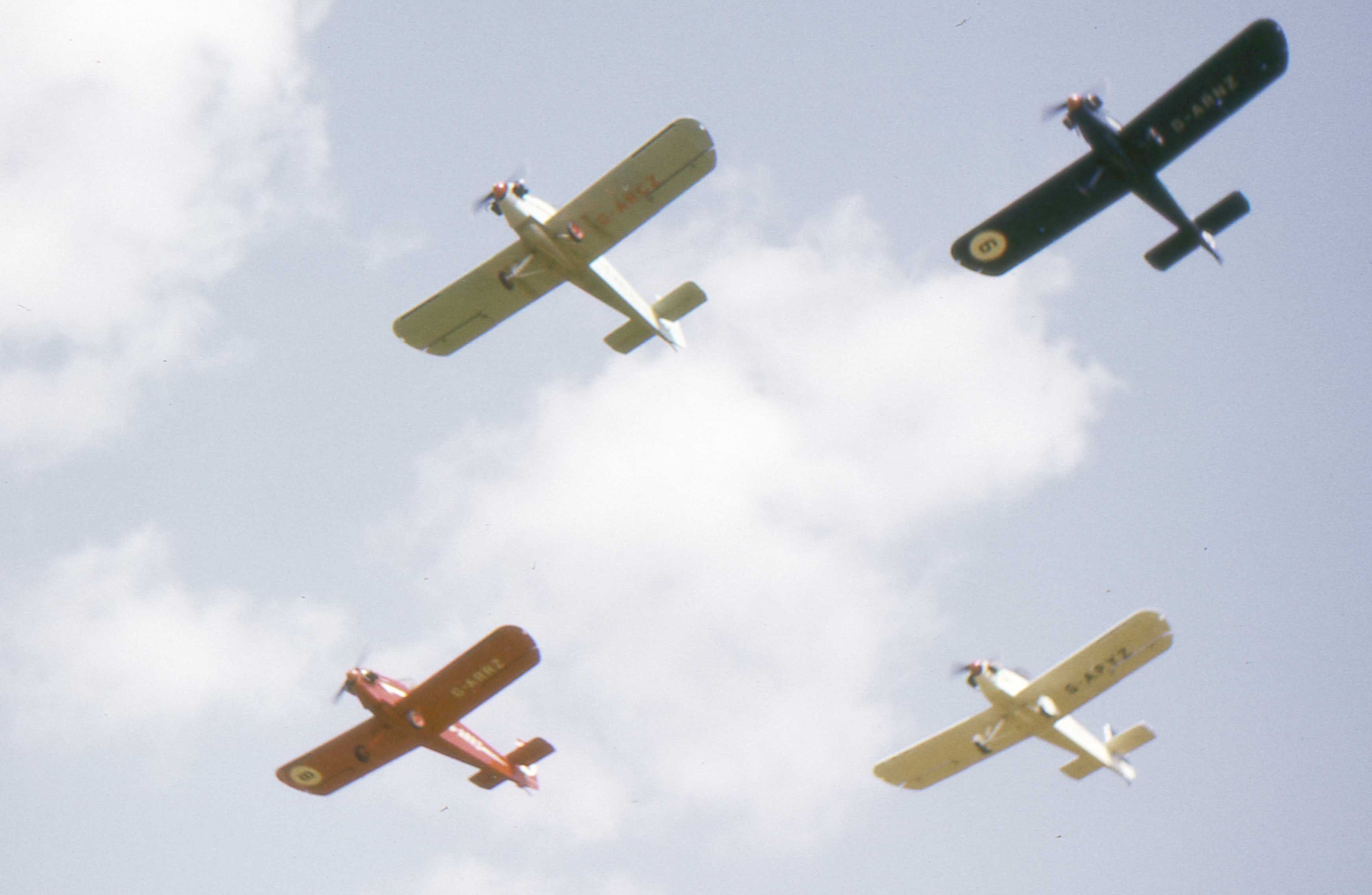 Four Druines flying at the SBAC show at Farnborough, 8 September 1962. The "all British" rule had been recently relaxed to allow foreign aircraft with British engines to attend. All are D.31 Turbulents: G-ARRZ (red), G-ARCZ (white, leader), G-APYZ (white) and G-ARHZ (blue).